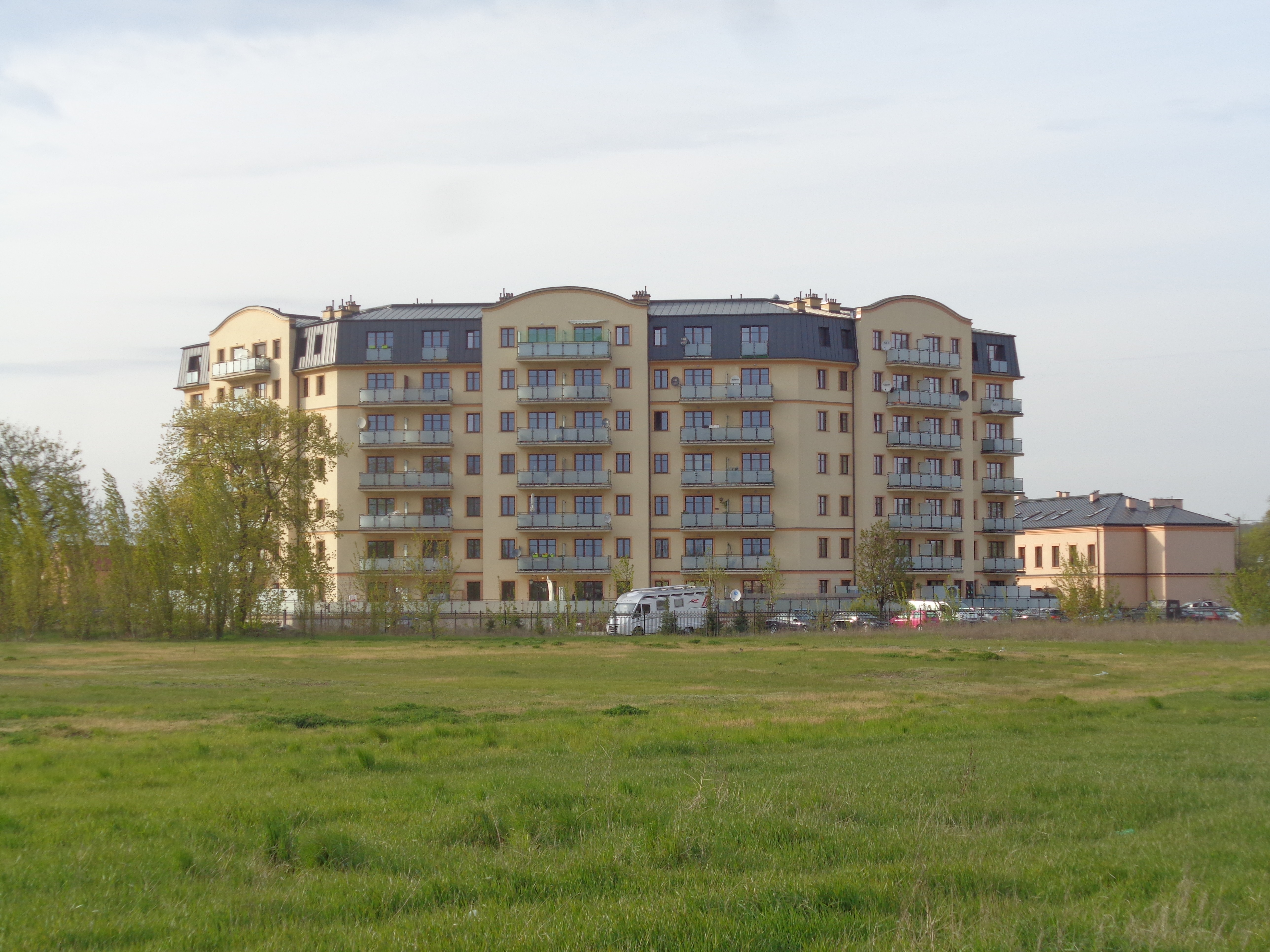 Amber Estate in Włocławek. Buildings fit to the placed near them Amber Palace.